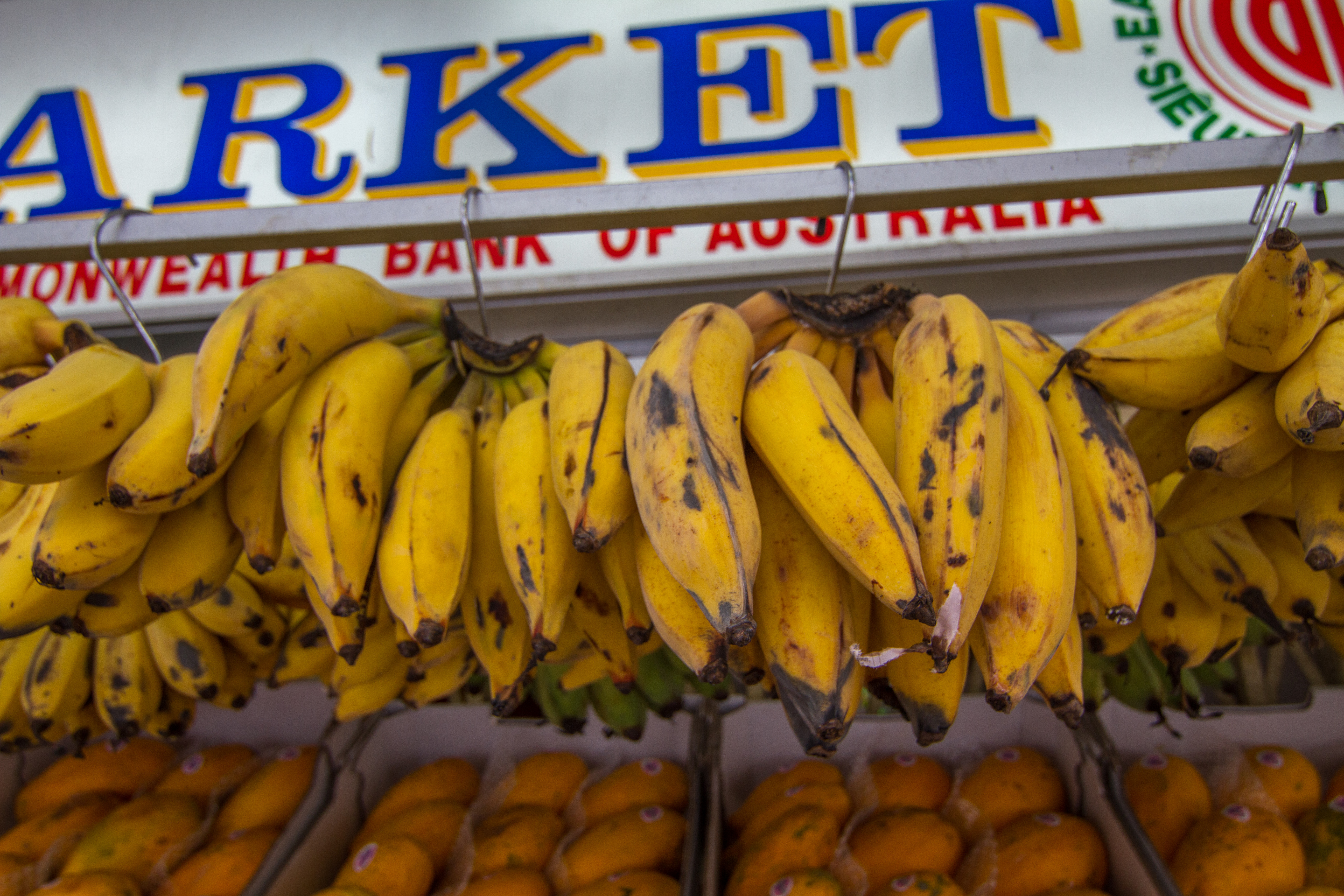 Sugar bananas